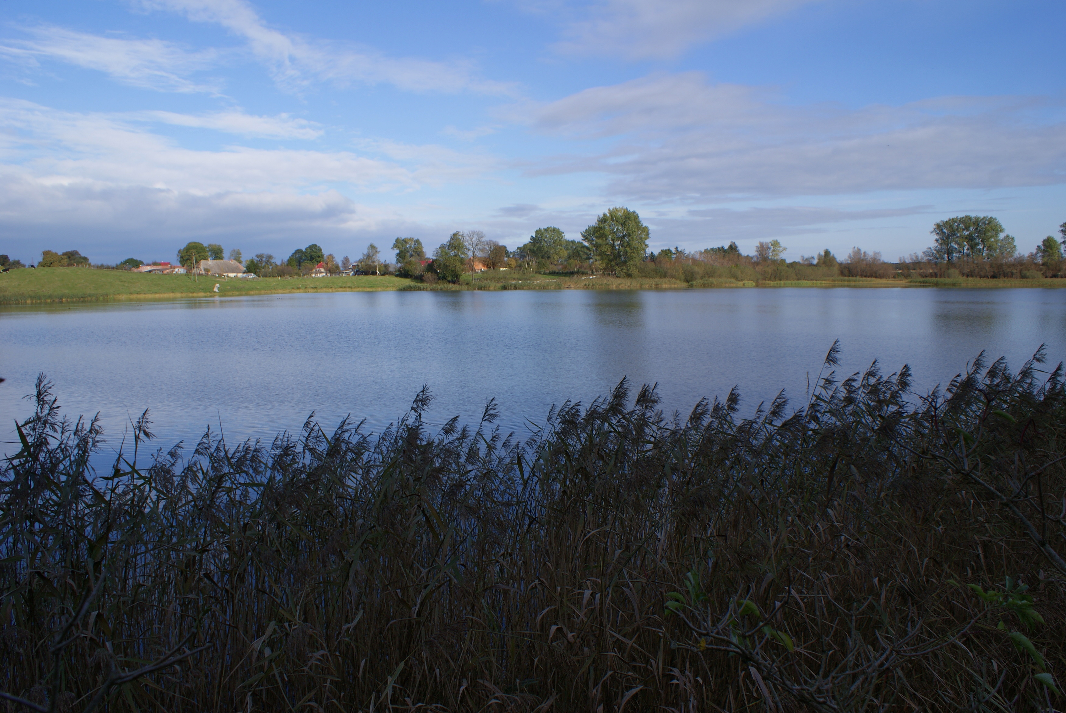 Borek - lake in West Pomaranian Voivodship in Kołobrzeg County